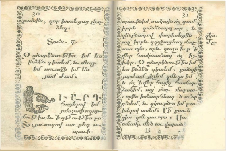 "Gate of God‘s Mercy", Armenian edition of 1702